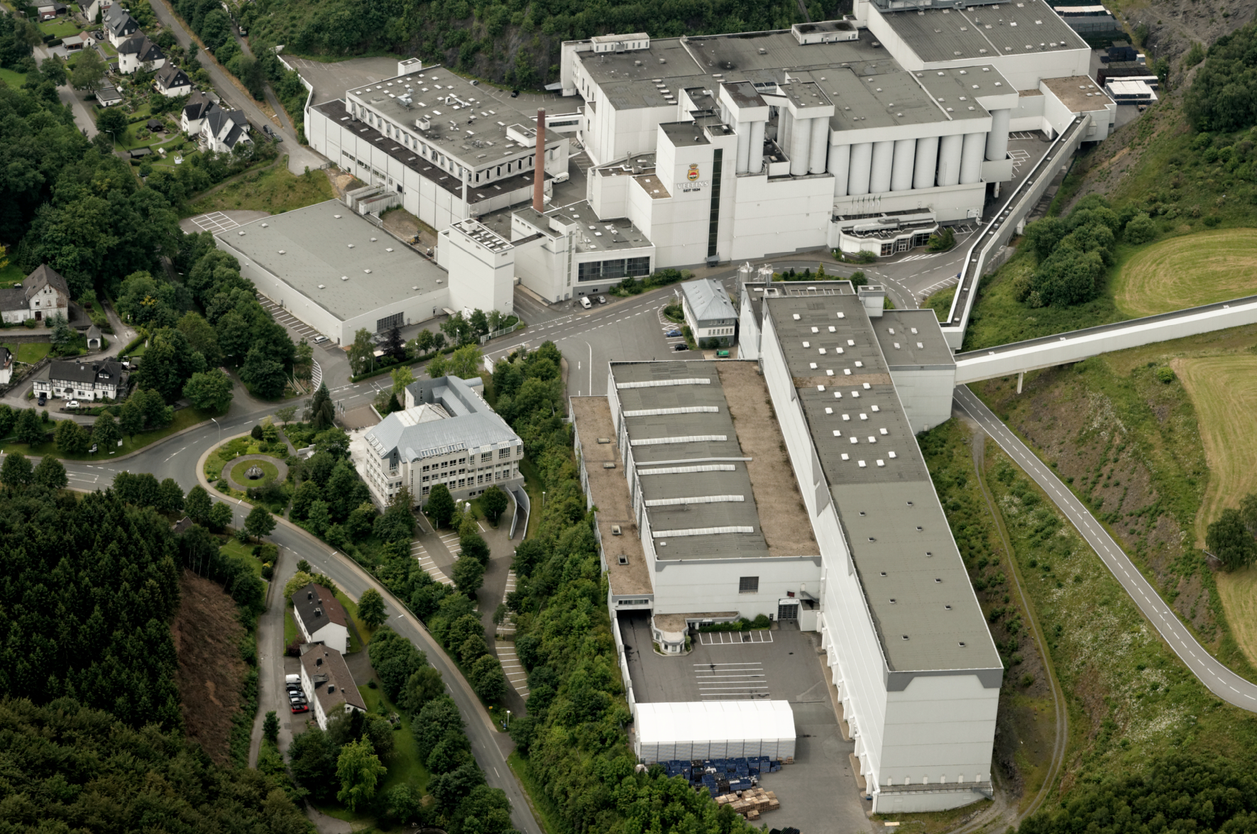 Meschede-Grevenstein: Veltinsbrauerei (Fotoflug Sauerland Nord) The making of this document was supported by the Community-Budget of Wikimedia Germany.